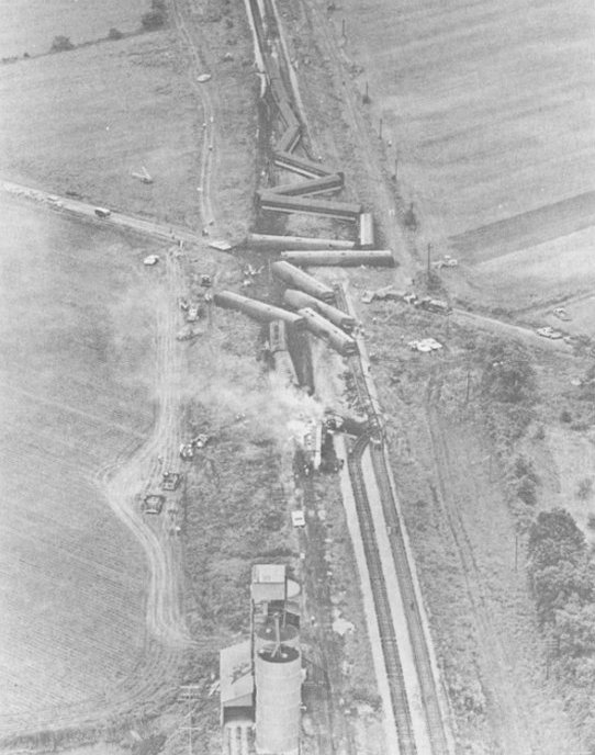 Aerial view of the wreck from the 1971 Salem, Illinois derailment.